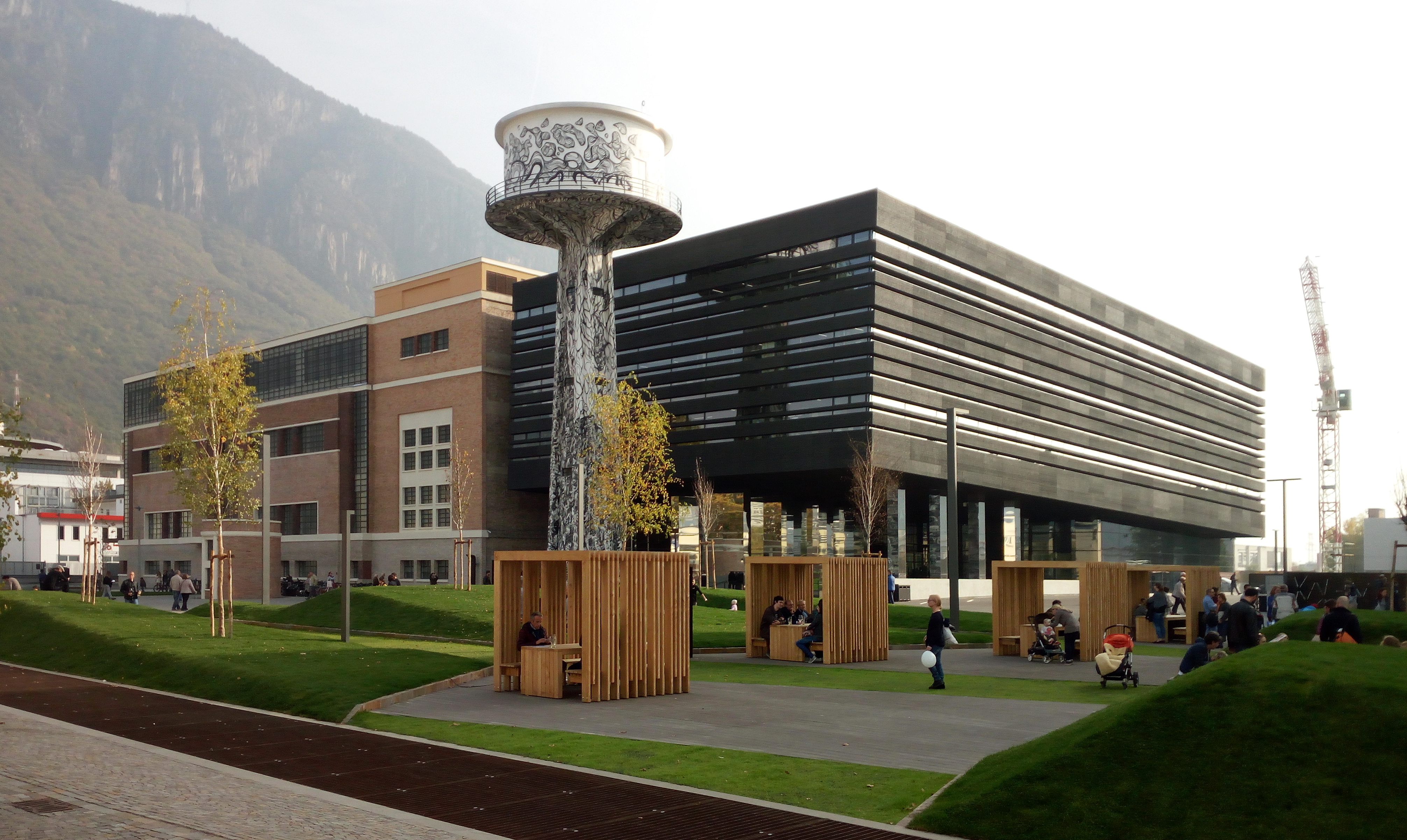 Techpark Bozen Bolzano-South Tyrol, former Alumix buildings